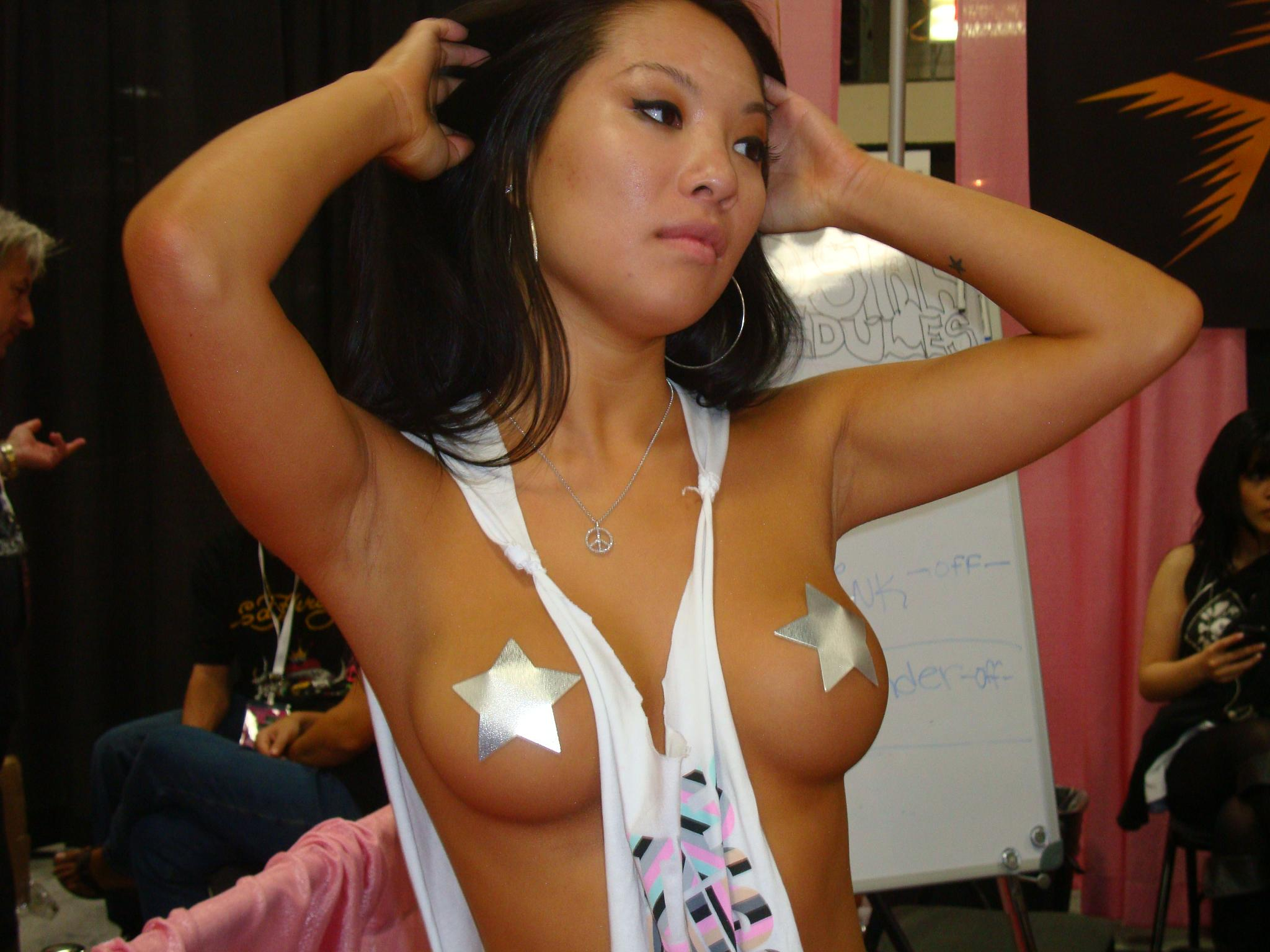 Asa Akira at Exxotica 2008.